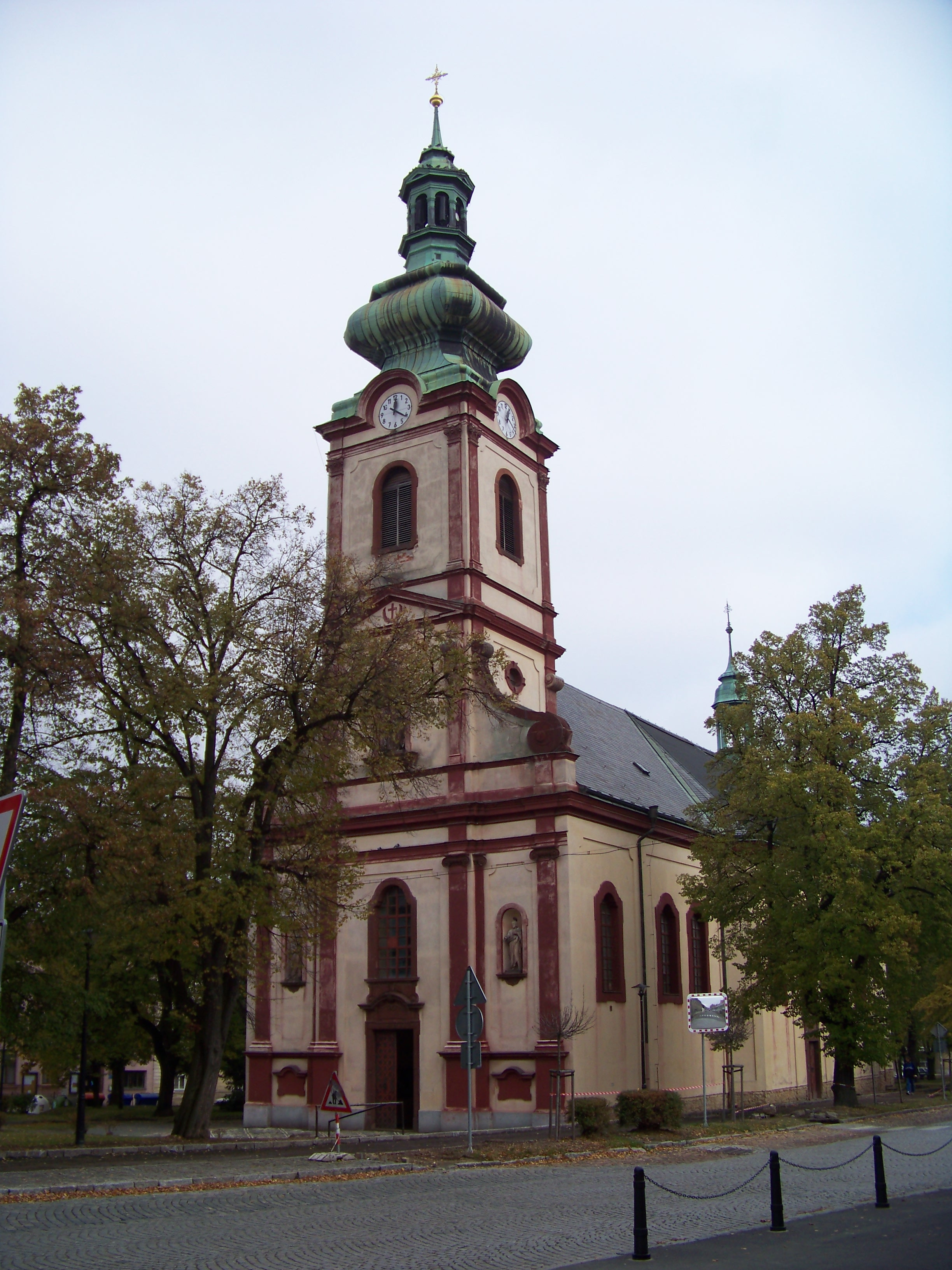 Kostelec nad Černými lesy, Prague-East District, Central Bohemian Region, the Czech Republic. The Church of Holy Guardian Angels.